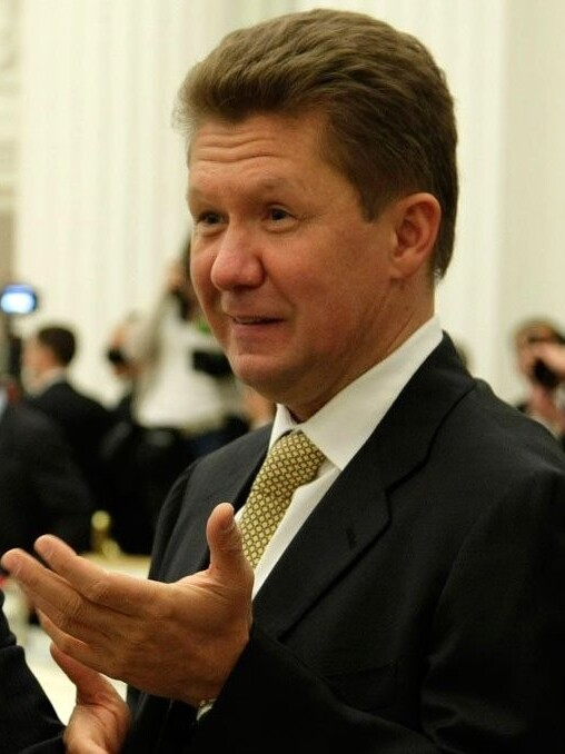 Alexey Miller, a Russian businessman.